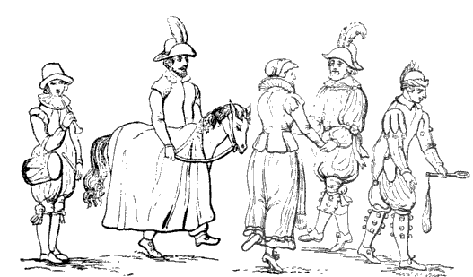 Pipe and tabor player, morris dancers, and hobby horse, from the era of James I.